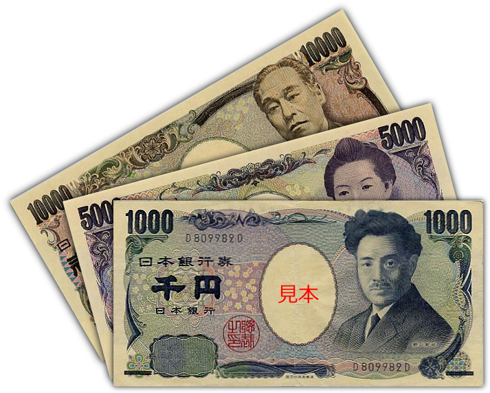 Banknotes of Japan. The red symbols (見本 mi-hon ) in the middle of the 1,000 yen paper means "SAMPLE" in Japanese.